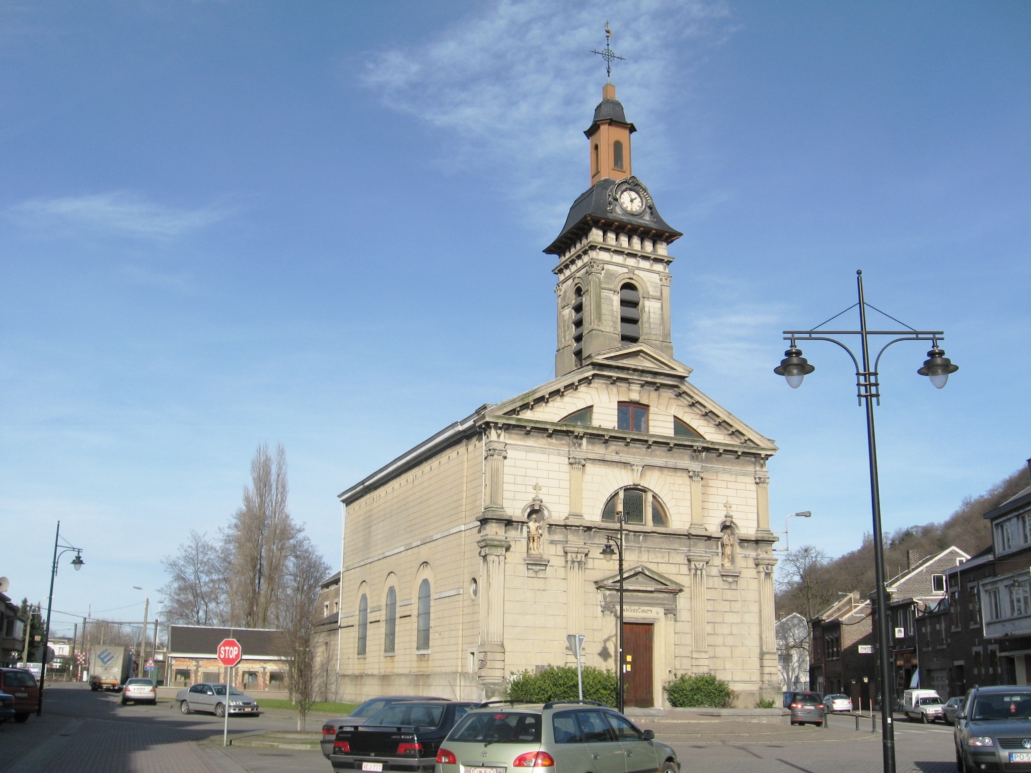 Church of Our Lady in Cheratte (Cheratte-Bas), Visé, Liège, Belgium